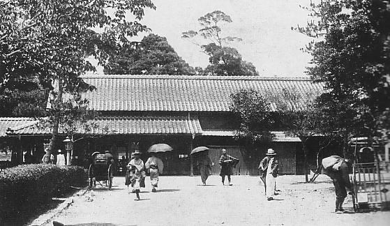 Horinouchi Station(present-day "Kikugawa Station") in Taisho era